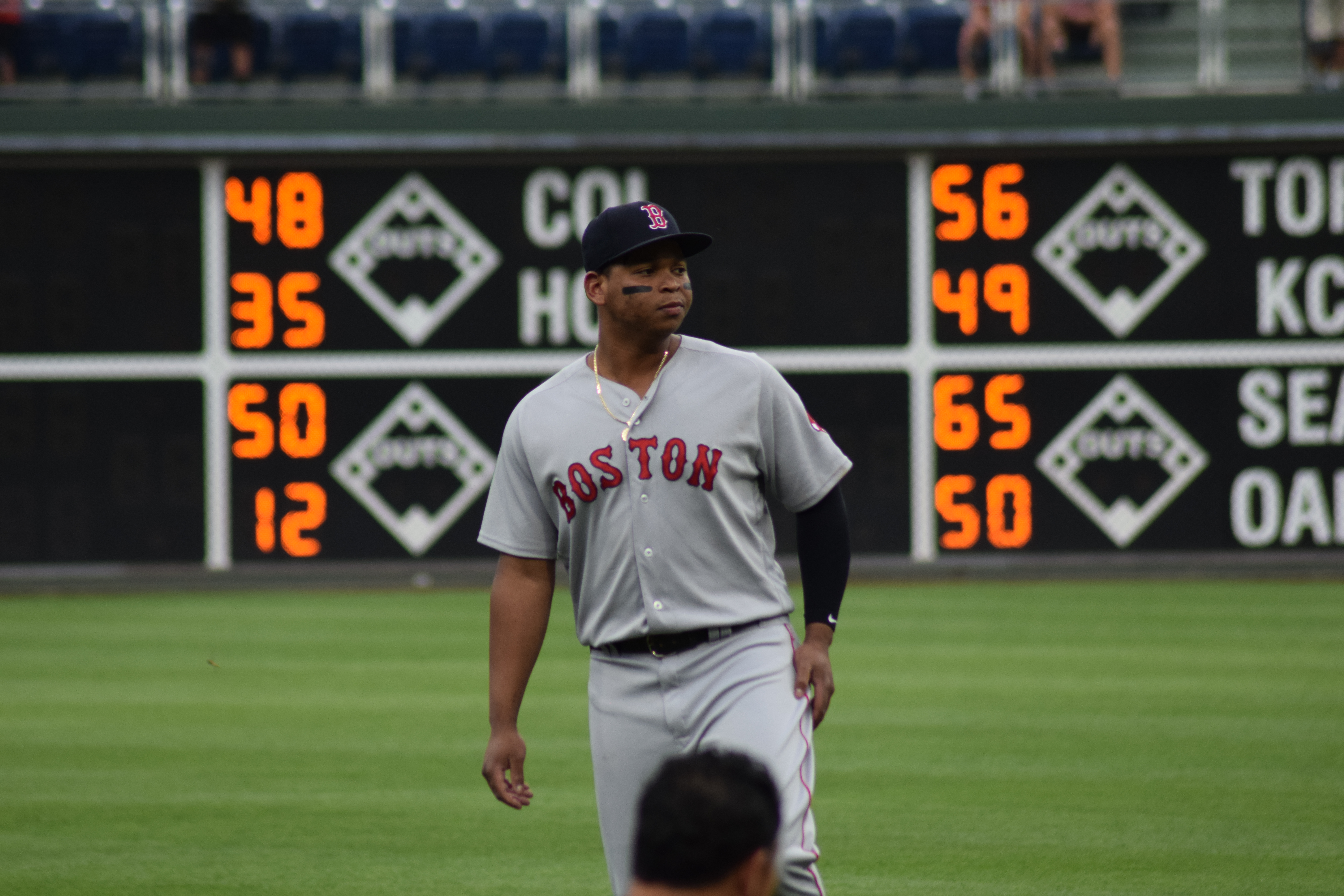 Boston Red Sox third basemen Rafael Devers